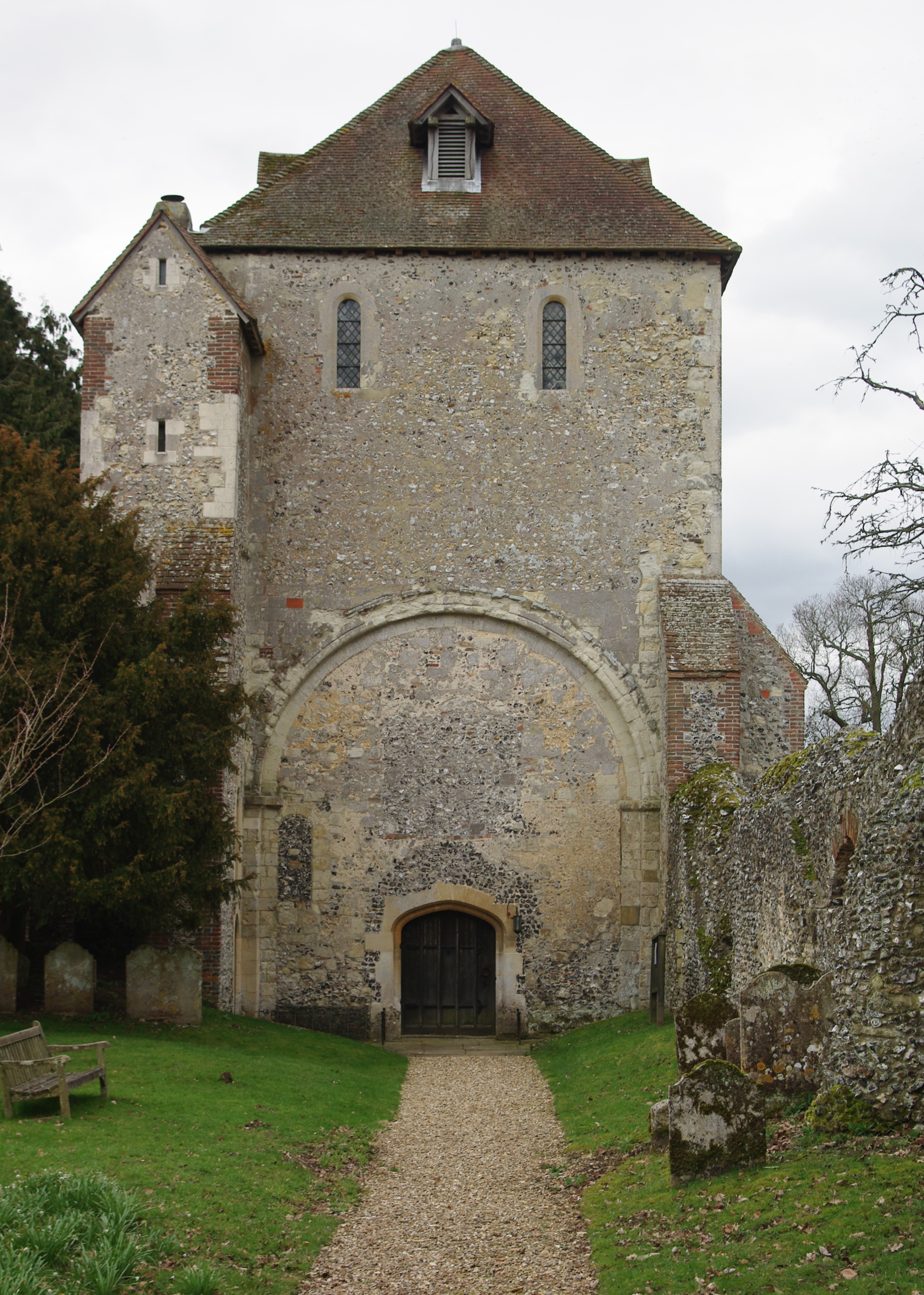 Pamber Priory Church Priory Church of the Holy Trinity, Our Lady, and St John the Baptist. All that remains of the 12th century Benedictine priory.